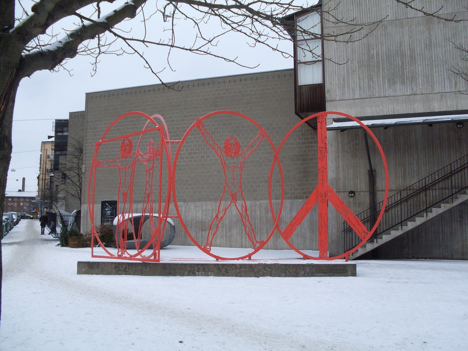 The sculpture "Från Leonardo" ("From Leonardo") by Ilhan Koman and Chet Kanra, on Karlavägen in Stockholm, in the open space in front of the School of Architecture of the Royal Institute of Technology.